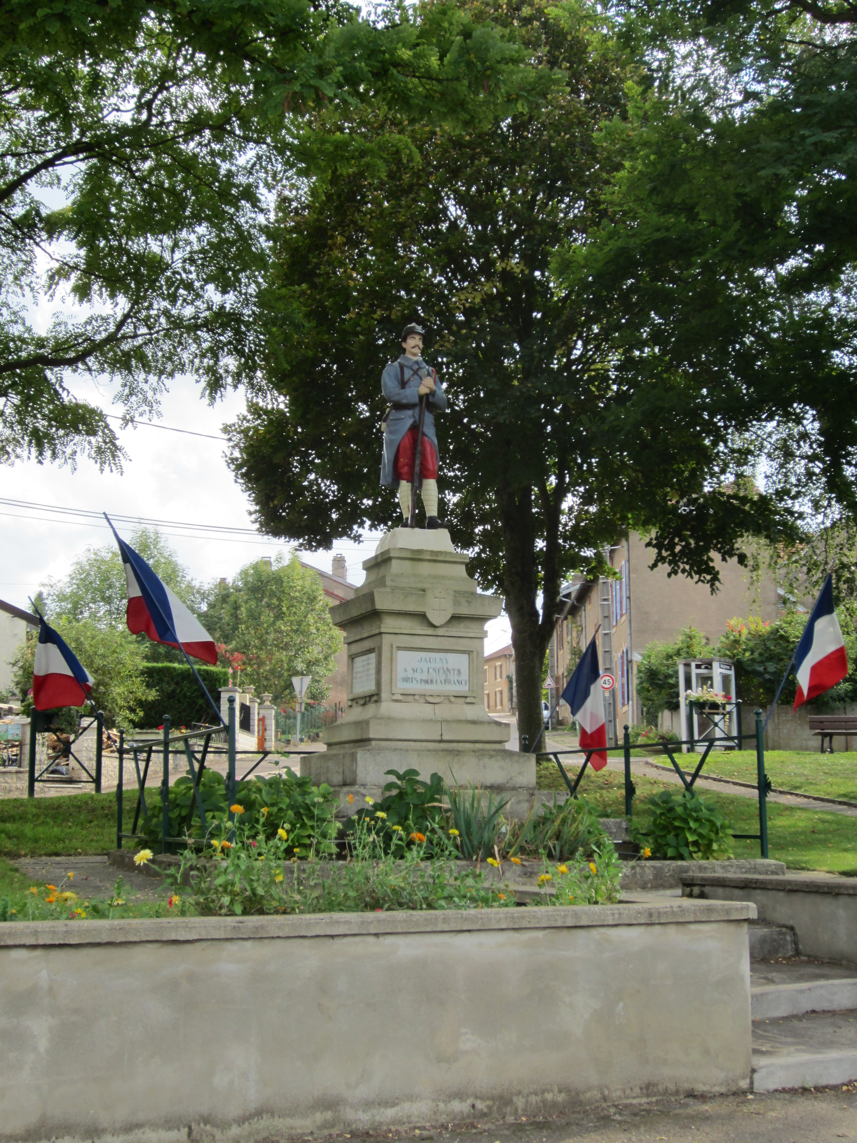 Description monument morts Jaulny Date27 September 2011Sourcemon appareil photoAuthorAimelaimePermission (Reusing this file) monument morts Jaulny